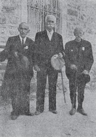 Luka Dzherov Anastas Lozanchev and Georgi Churanov